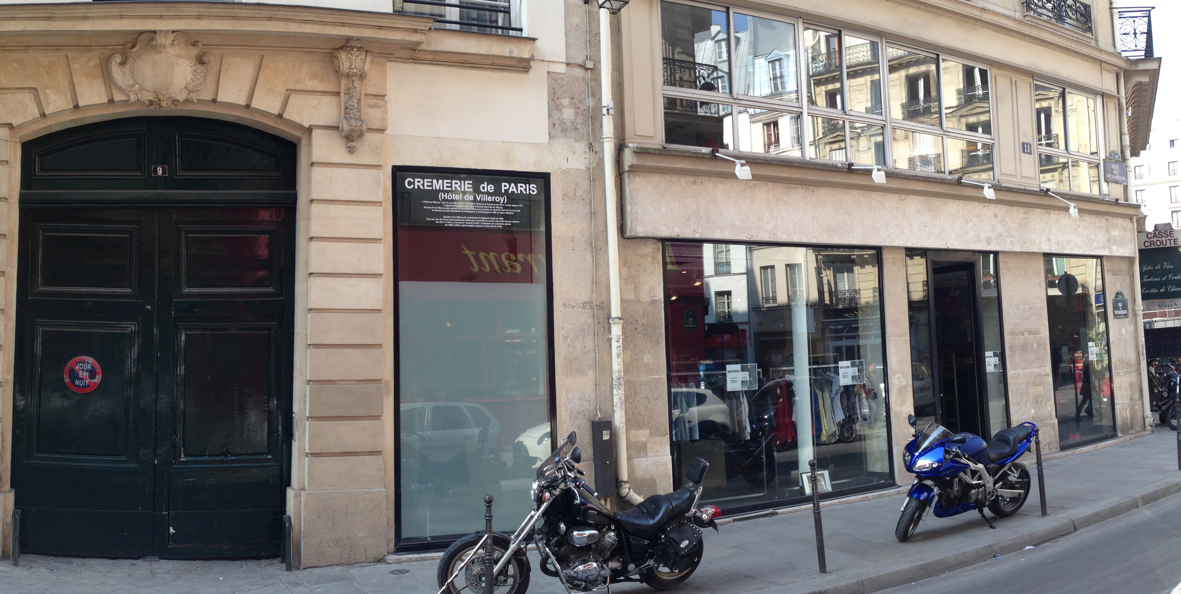 A panoramic composition of two photos of the Hôtel de Villeroy's entrance on rue des Déchargeurs, next to the Crémerie de Paris, a commercial exhibition space.